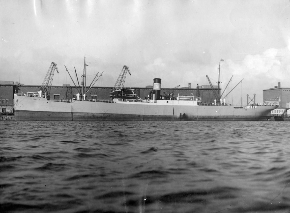 Photograph of the Finnish S/S Herakles (built in 1910 in Port Glasgow). Original name Drumcraig (England), after 1913 Vinstra (Norway), after 1936 Herakles.